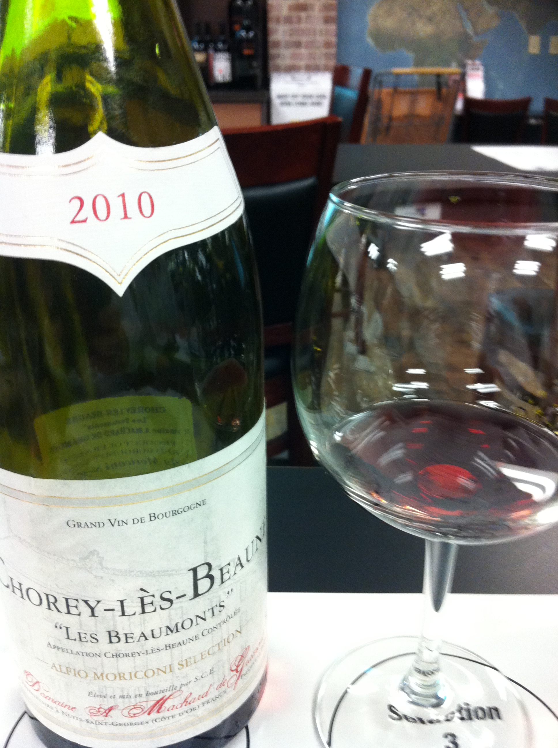 French Pinot noir from the Burgundy region of Chorey-les-Beaune